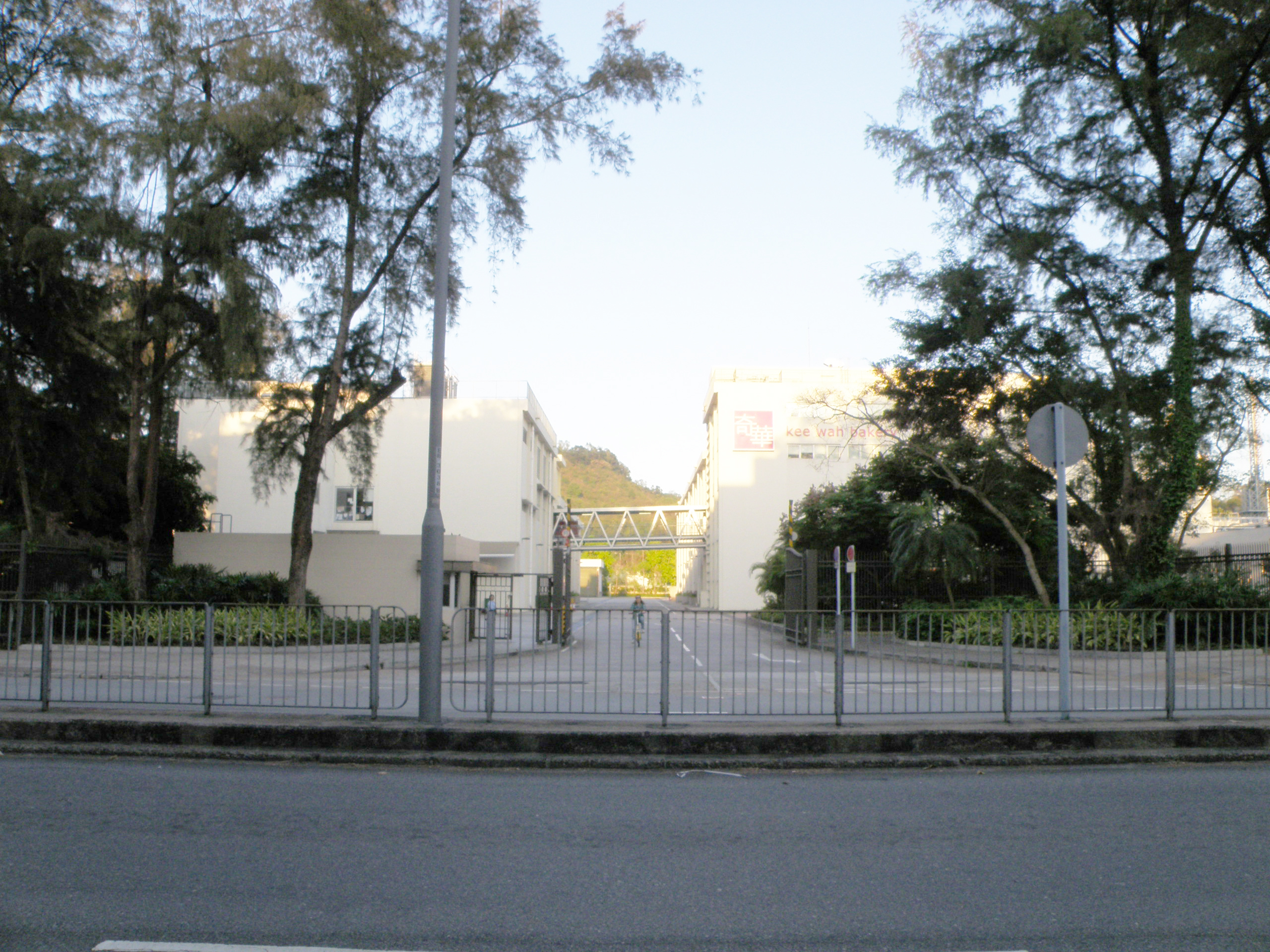 Kee Wah Bakery factory in Tai Po, Hong Kong.